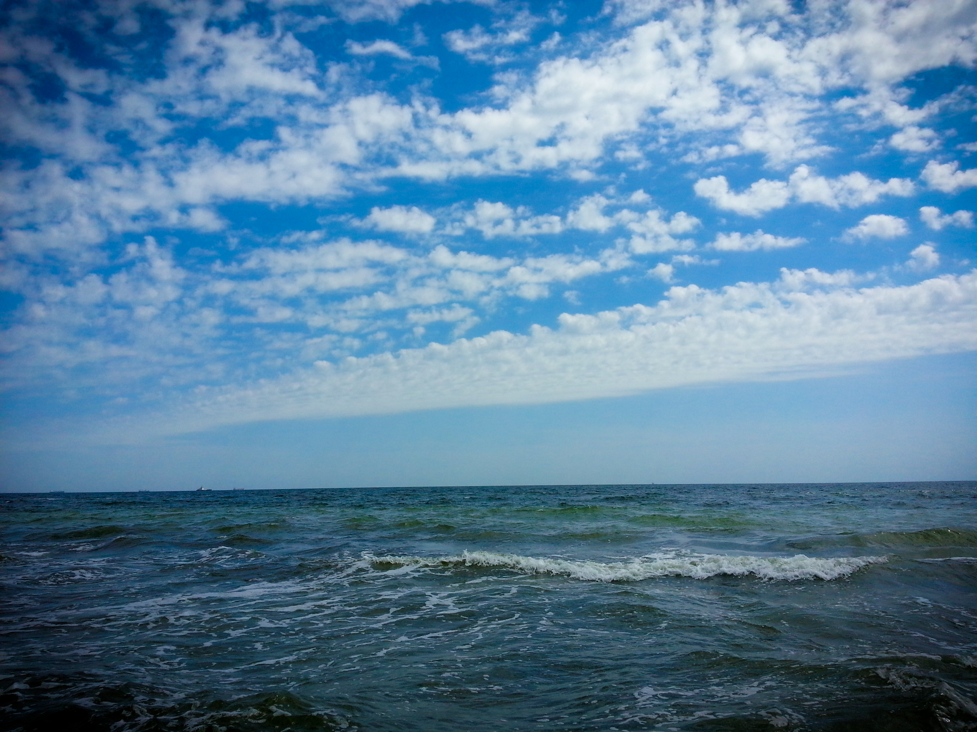 @ coast of Odessa, Ukraine